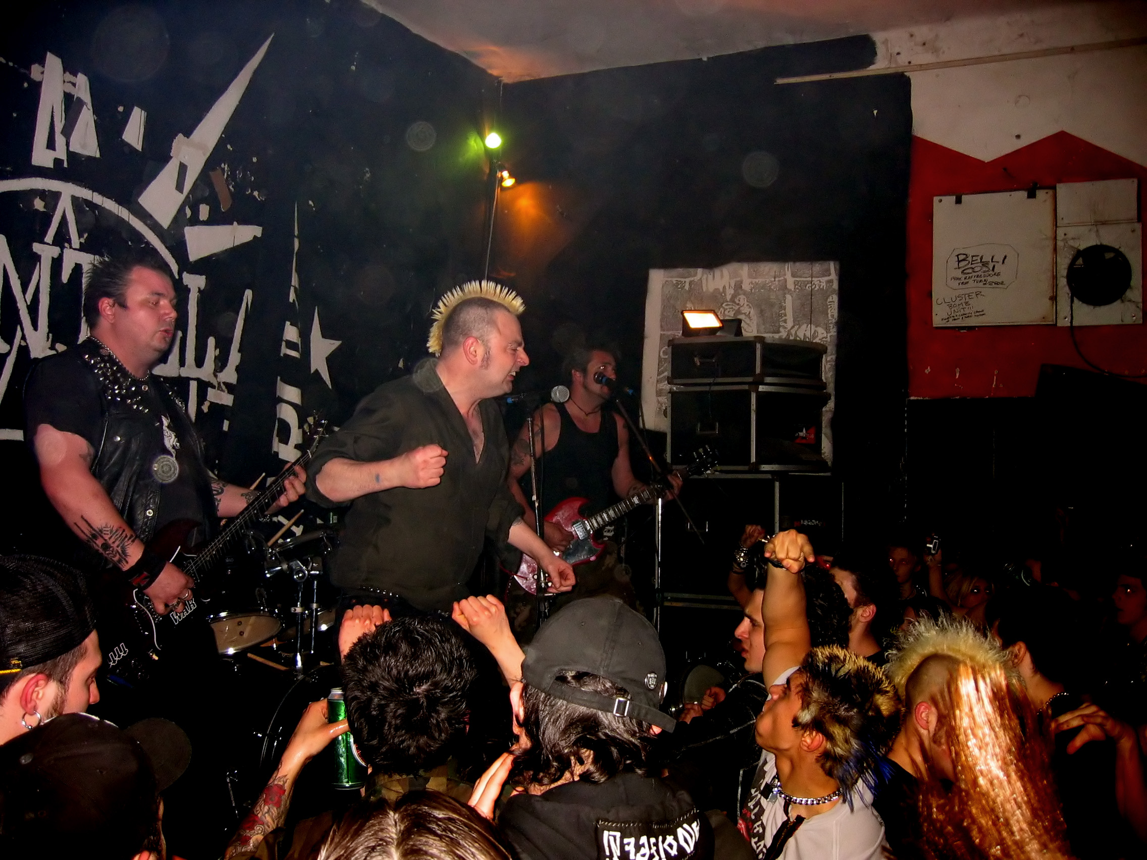 The Varukers live on 23 April 2006